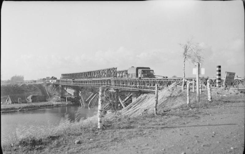 The British Army in North-west Europe 1944-45 Kelpen North Bailey Bridge, Holland, 25 November 1944.